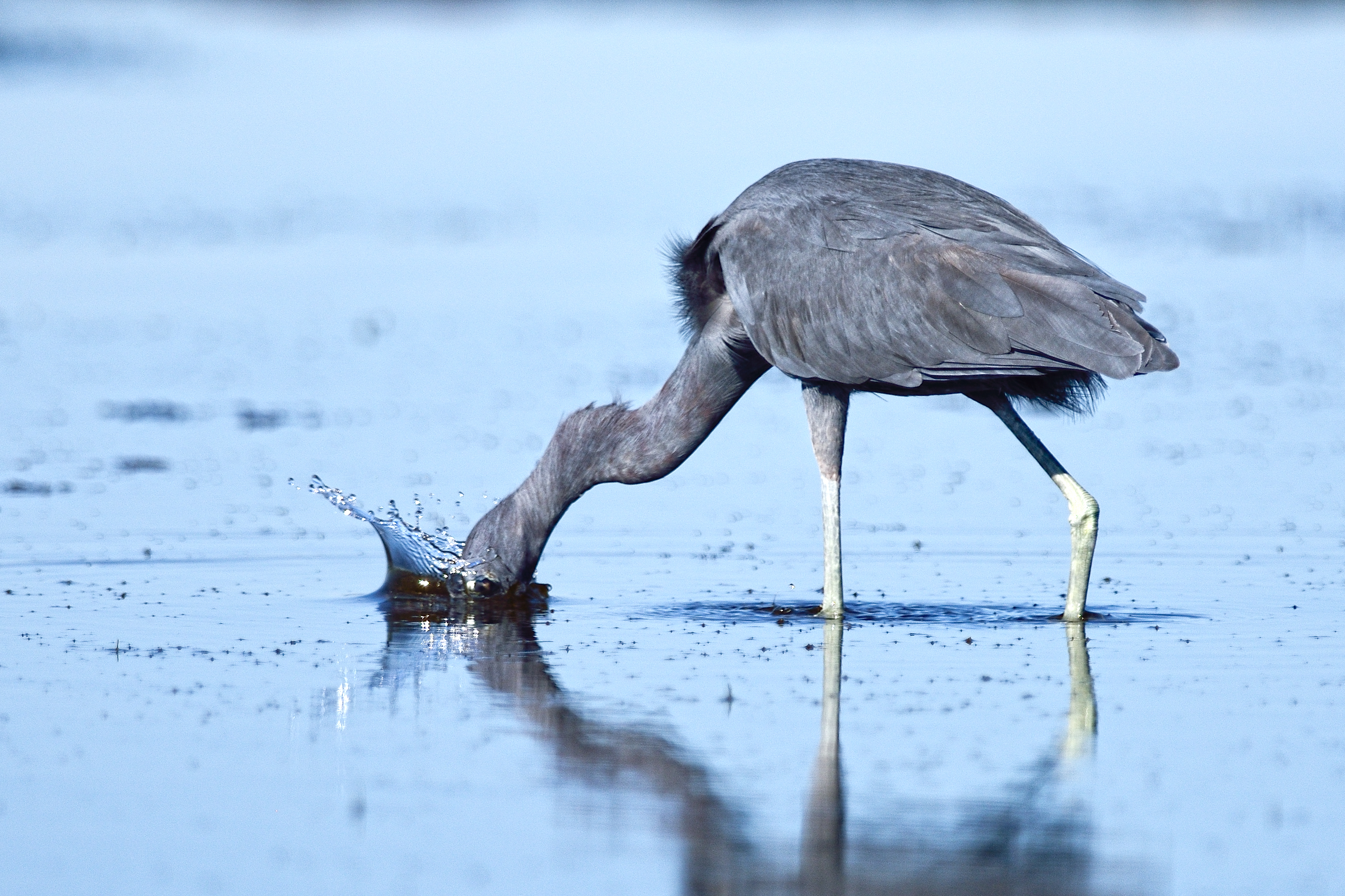 little blue heron on blue